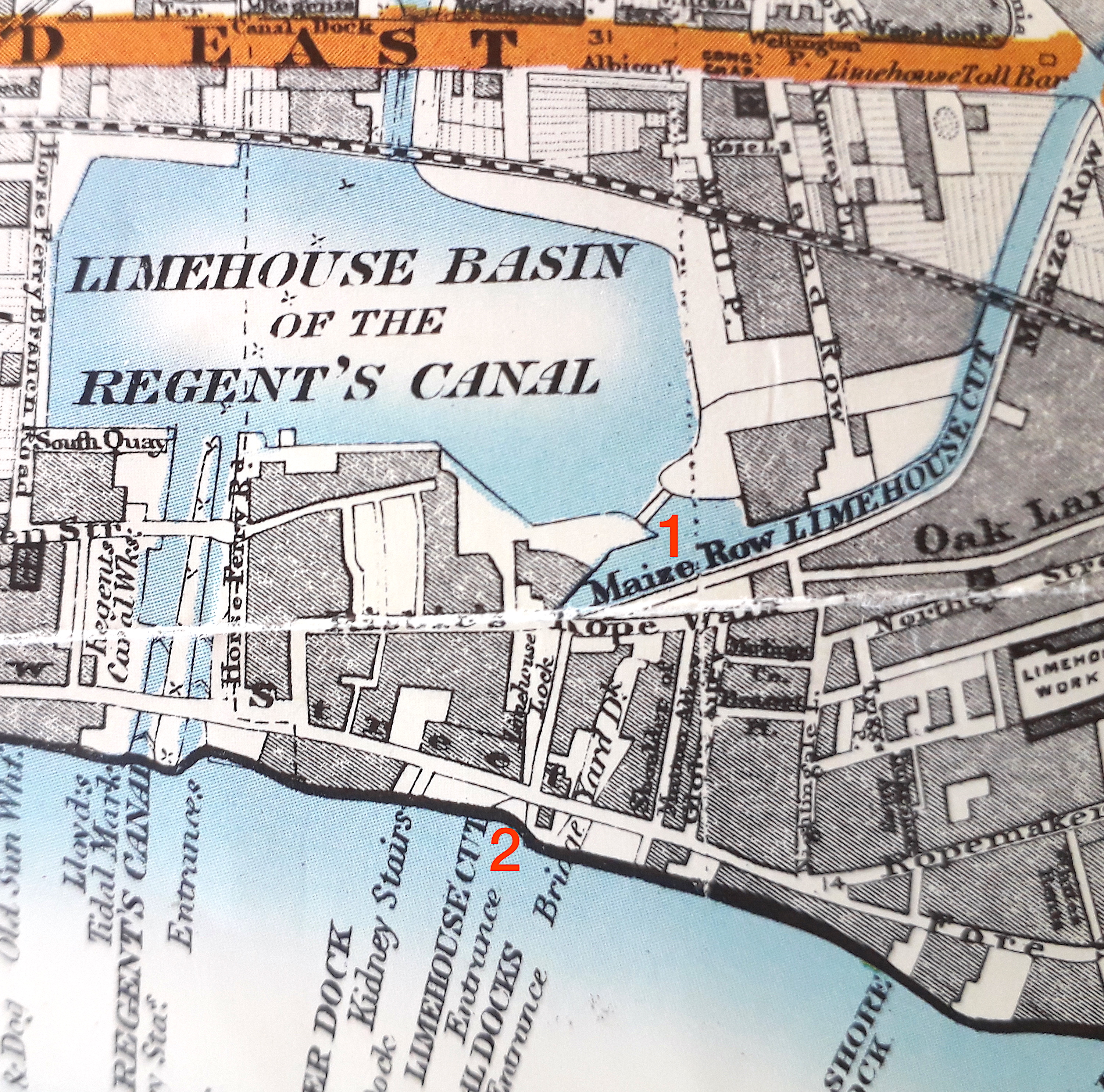 The link between Limehouse Cut and the Regent's Canal Dock before it was filled in (1864)